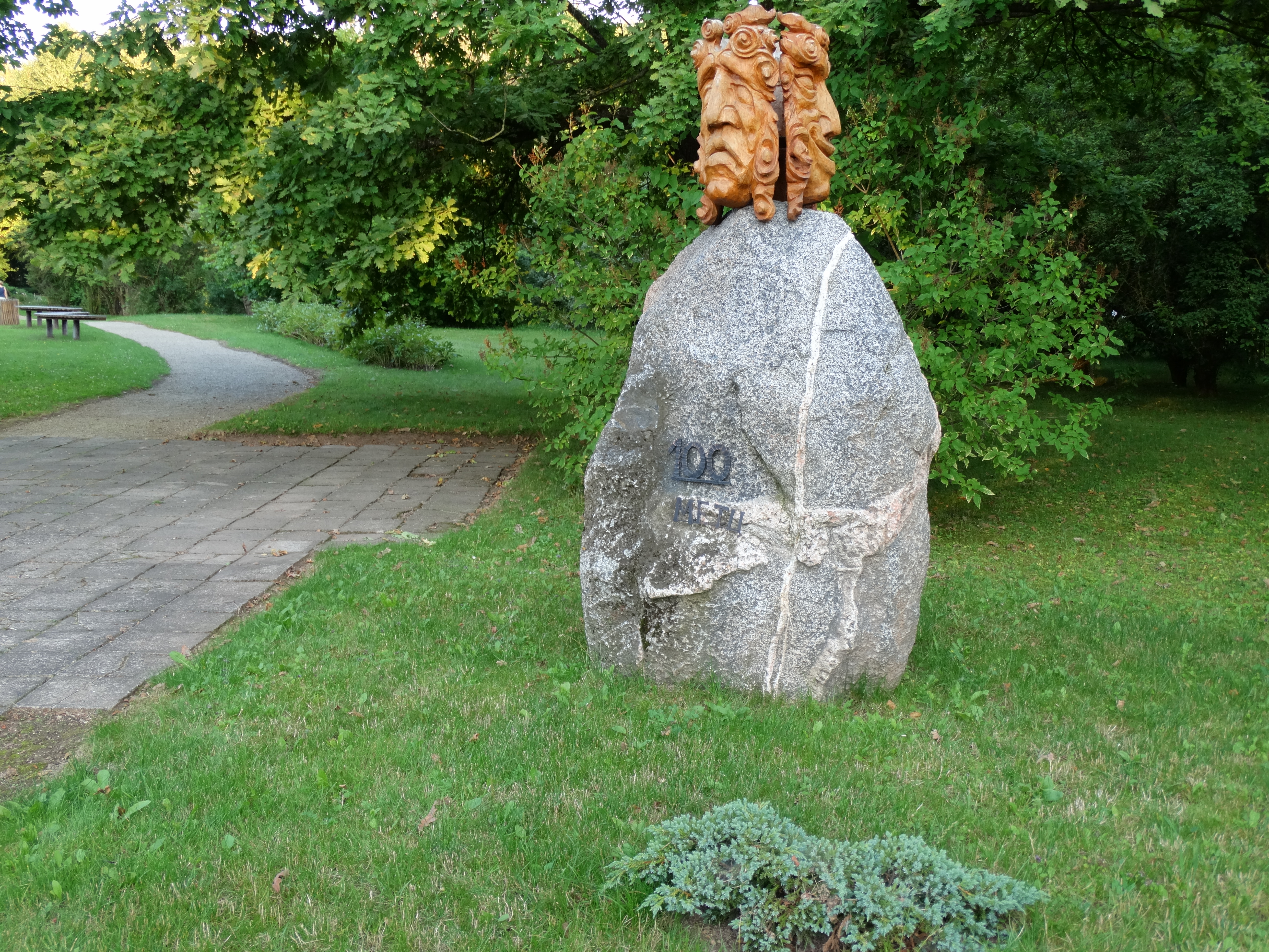 Stone, Skaistgirys, Joniškis district, Lithuania